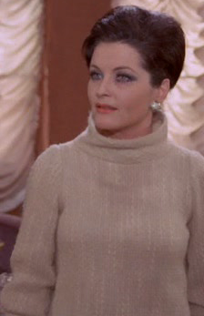 screenshot from the film In nome del popolo italiano